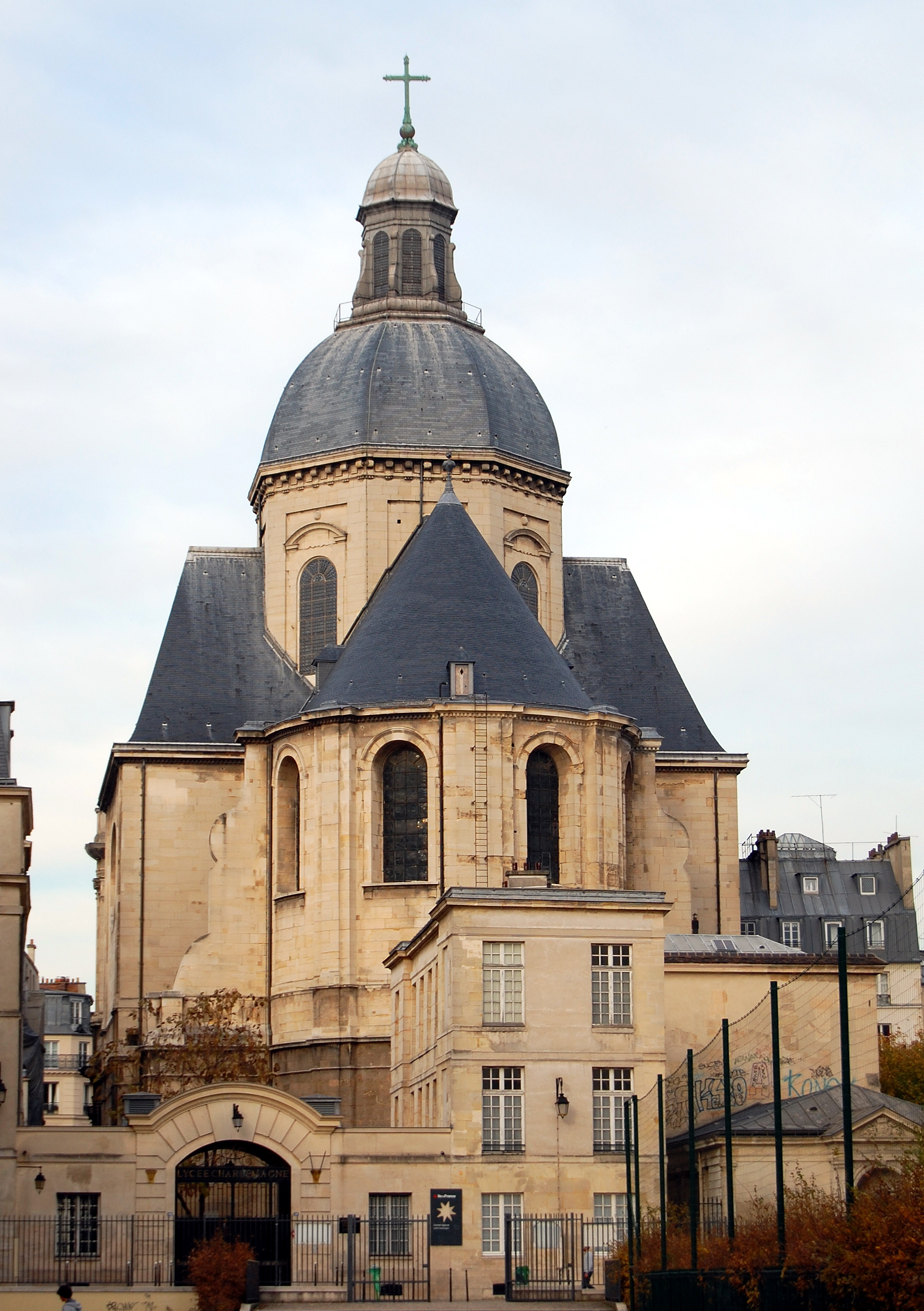 Church Saint-Paul-Saint-Louis, Marais district, Paris, France